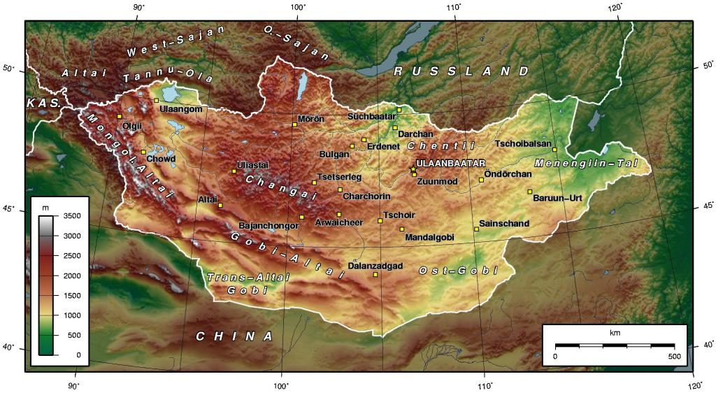 Topographic map of Mongolia with Aimag capitals, in english language. Transverse Mercator projection central meridian 103.5° E latitude or origin 47.0° N